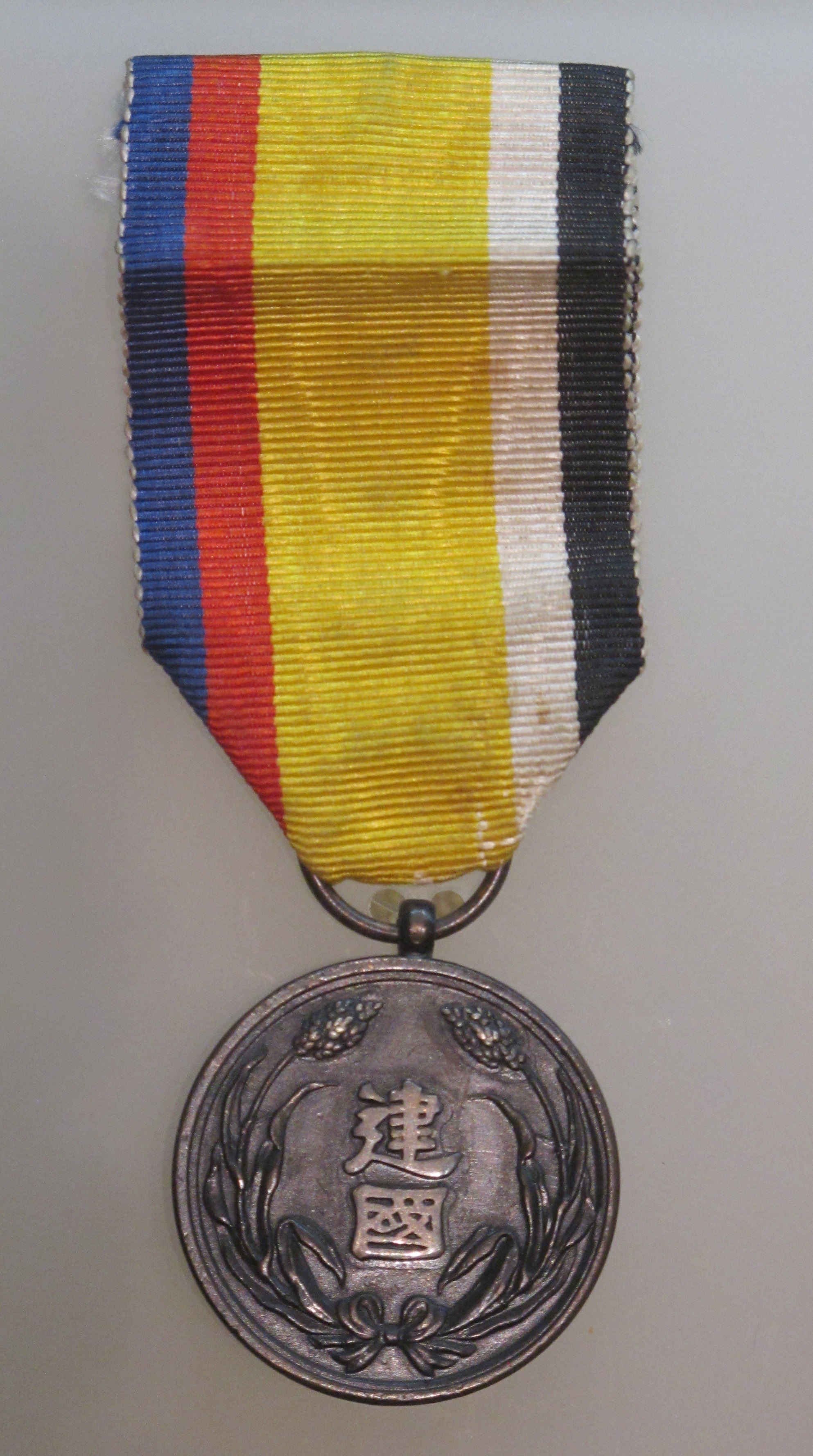 Manchukuo National Foundation Merit Medal. Established in 1933. The exhibition of the Jilin Provincial Museum.